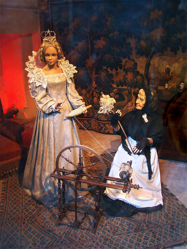 Château d’Ussé, Indre-et-Loire, Centre, France. Wax figures, scene from Charles Perrault's Sleeping Beauty.